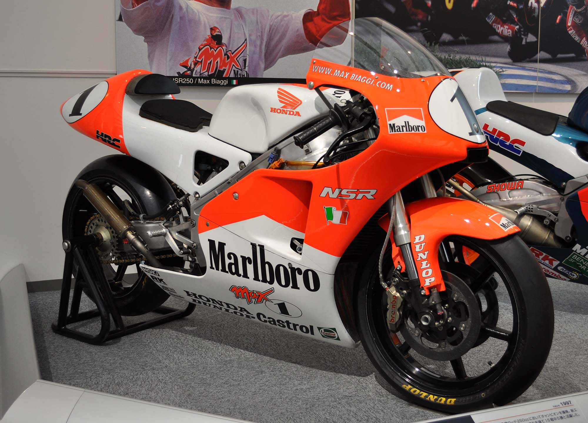 Honda NSR250 (Max Biaggi, 1997)